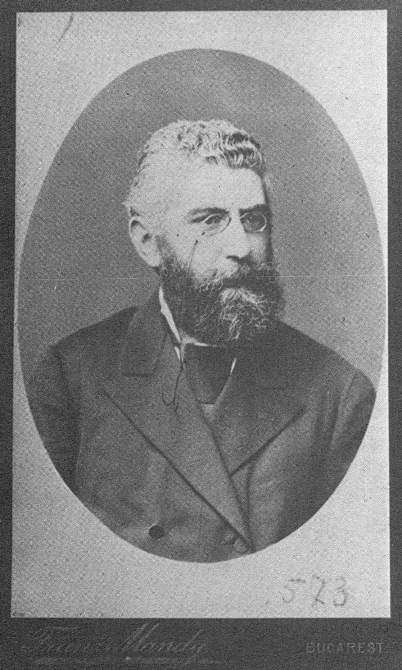 Kiryak Tsankov, member of Bulgarian revolutionary central committee in Bucharest